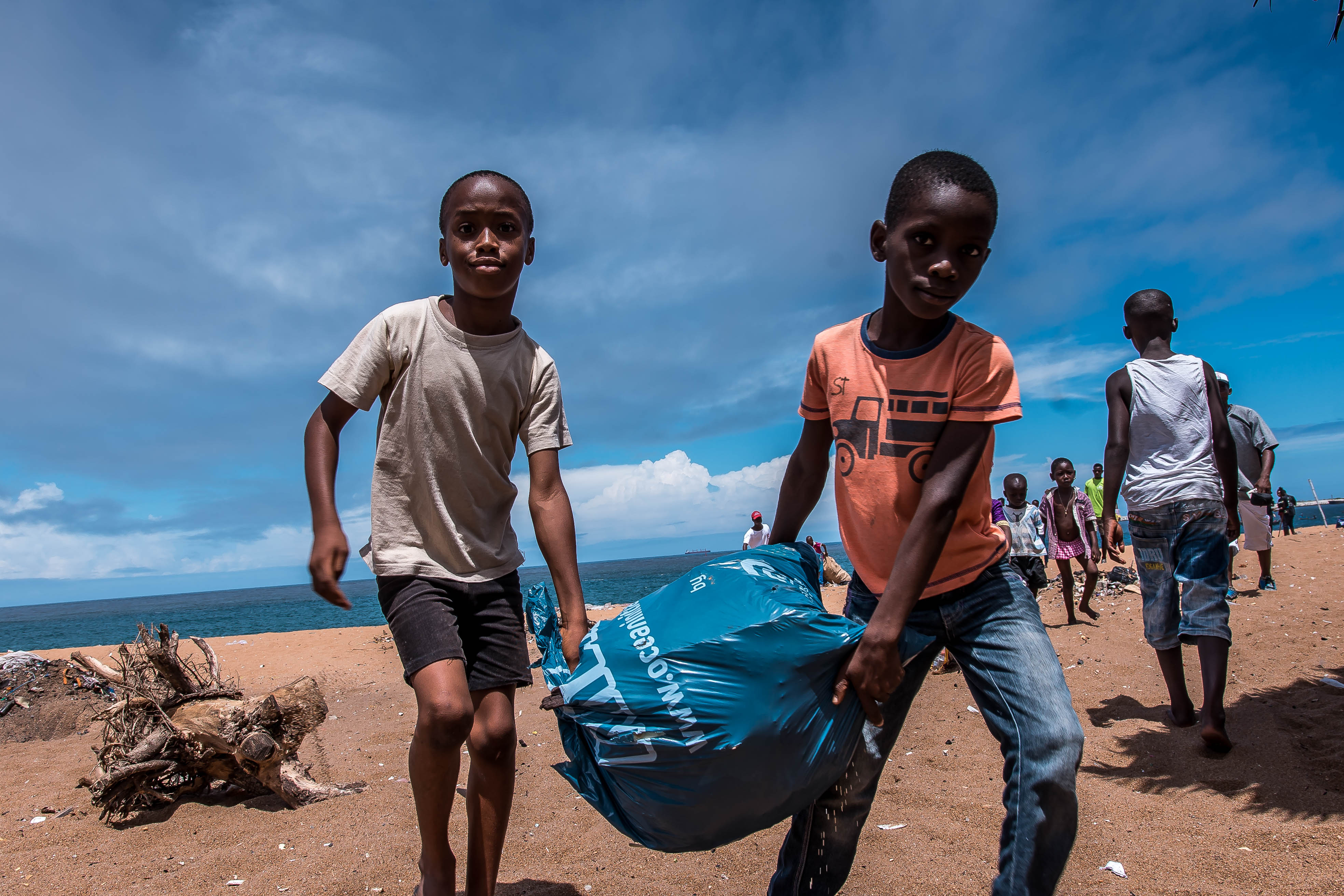 Deux enfants qui transportent un sac d'ordure sur la plage de vridi cité This is an image with the theme "Africa on the Move or Transport" from: Ivory Coast